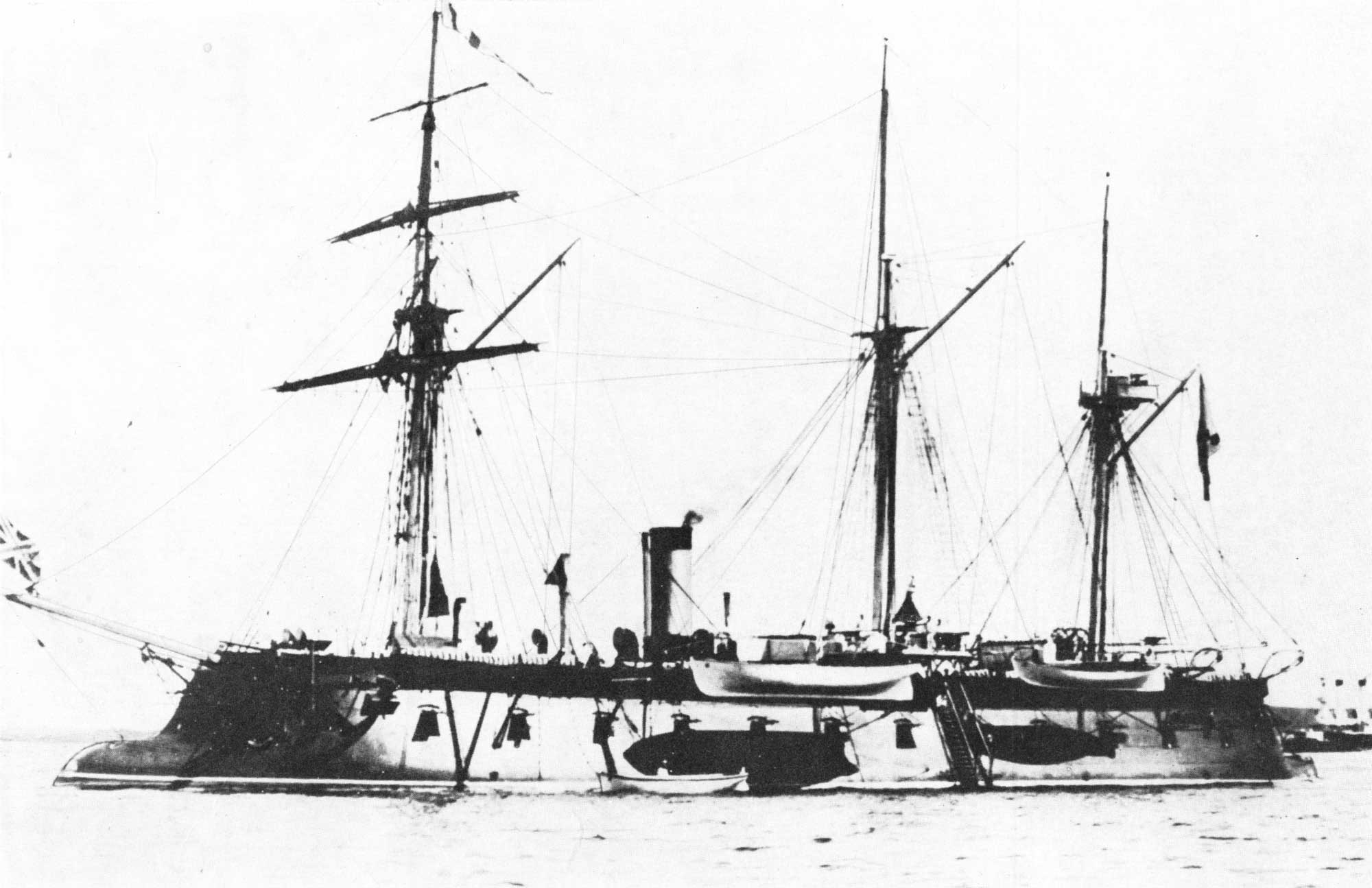 Russian Ship of the Line Pervenets